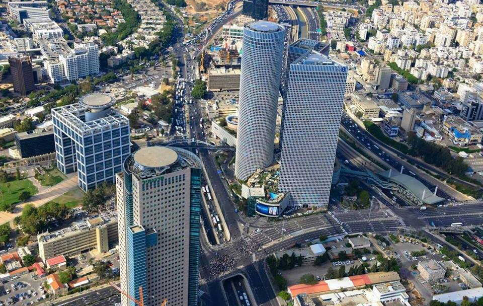 Tel Aviv from the air, Israel, by Israeli Police Airborne Unit. In the photo: Azriely Center and Azriely Towers.